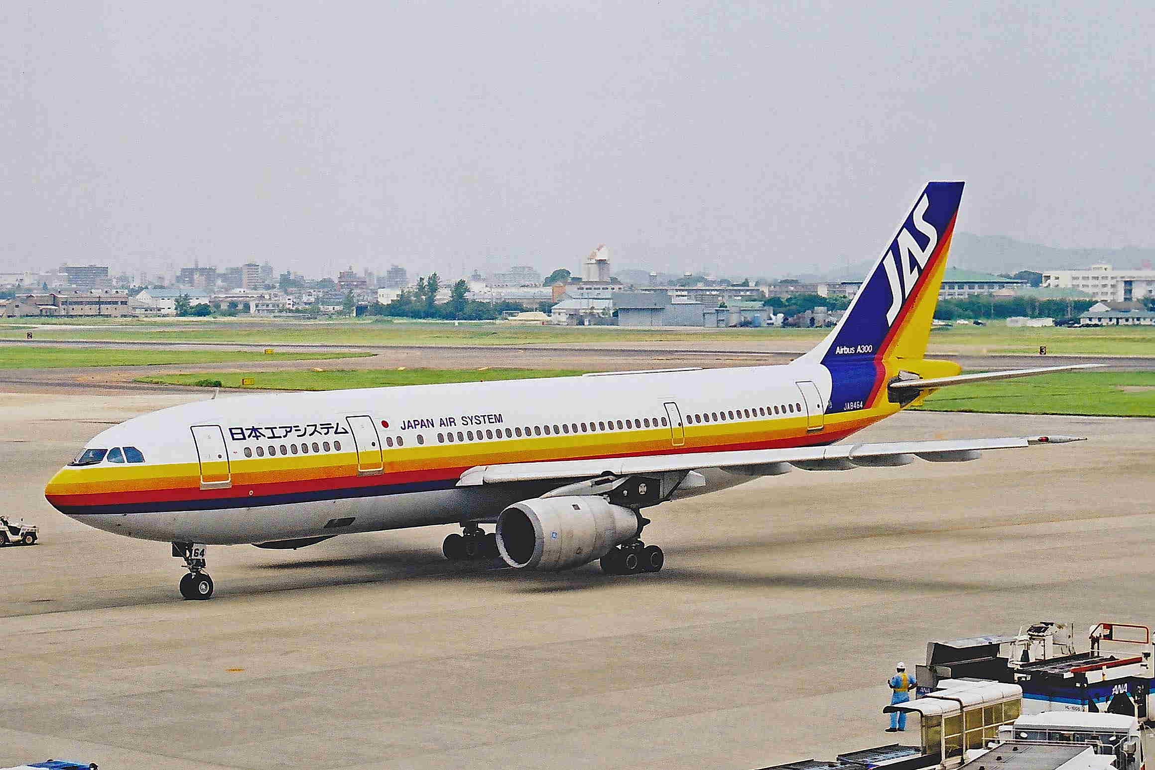 First Airbus aircraft for a Japanese airline.